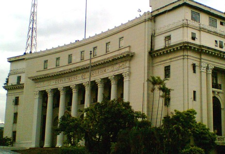 Facade of the Dept. of Tourism bldg.